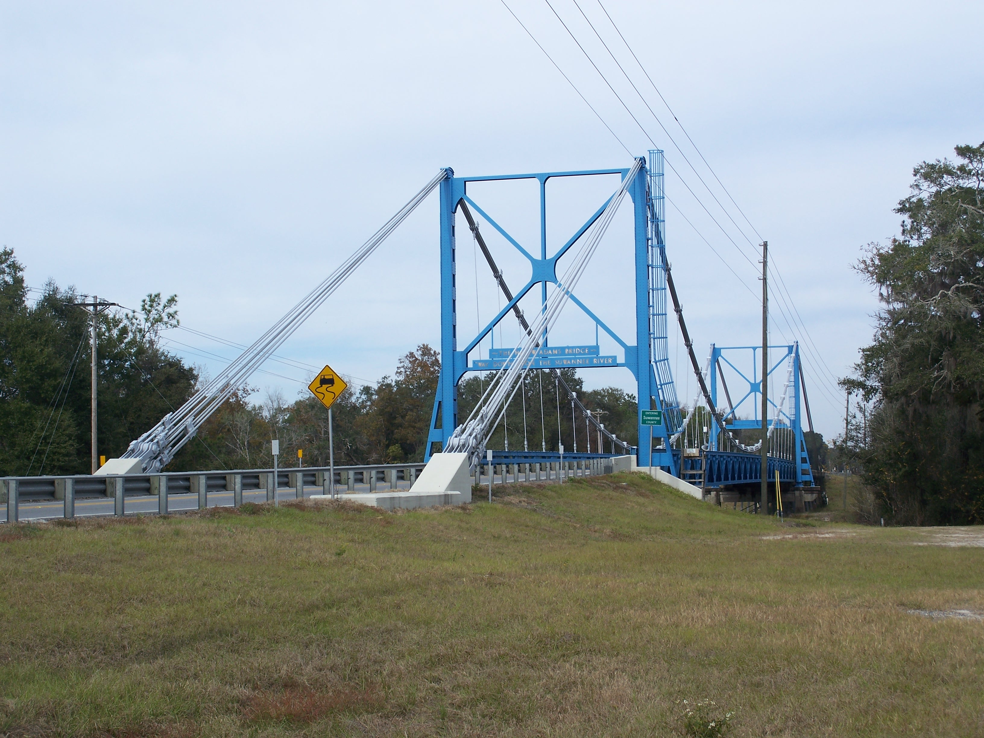 Luraville, Florida: The Hal W. Adams Bridge, carrying SR 51 across the Suwannee River, the border between Suwannee and Lafayette counties. Looking north from the park near the bridge.